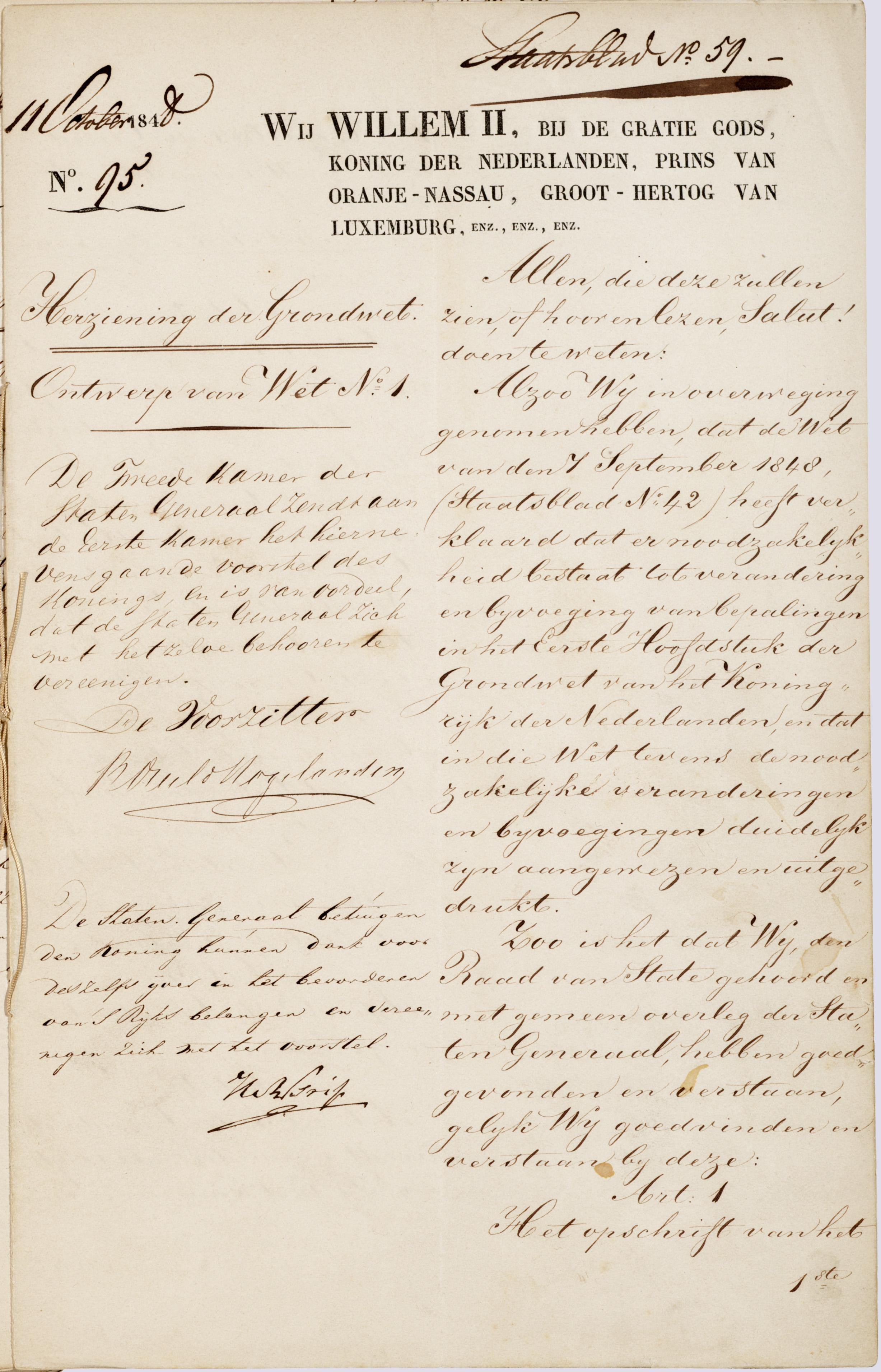 First pagina of the Dutch Constitutional Reform of 1848. Text: "We WILLIAM II, by the grace of God, King of the Netherlands, Prince of Orange-Nassau, Grand Duke of Luxembourg, etc., etc., etc. All, who will see this, or hear it being read aloud, Salute! make known: Whereas We have considered, that the Law of 7 September 1848, (Staatsblad No. 42) has stated that there is a necessity for change and addition of provisions in the First Chapter of the Constitution of the Kingdom of the Netherlands, and that in that Law the necessary changes and additions have also been clearly specified and expressed. So is it that We, having heard the Council of State and in joint discussion with the States General, have agreed upon and understood, like We agree and understand the following: Art. 1 The documentation of the..."